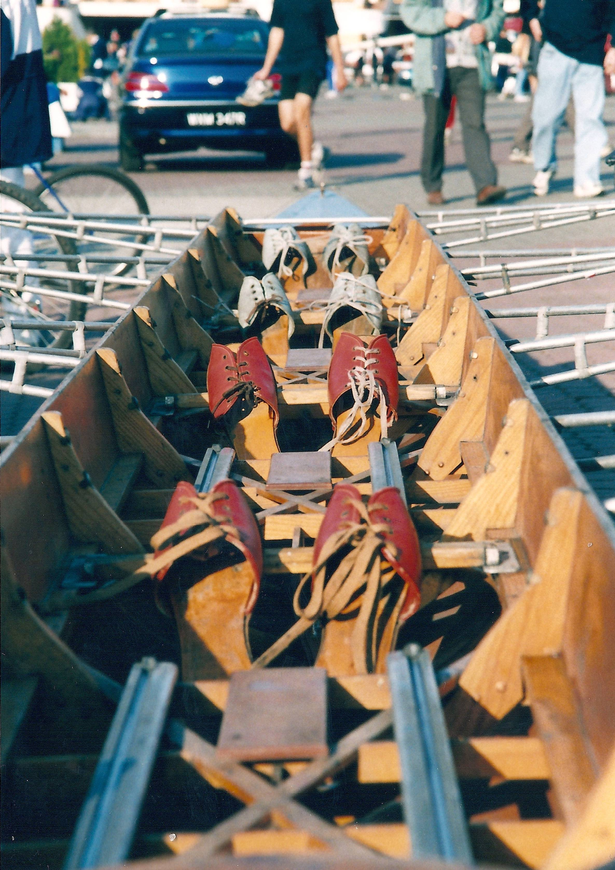 Inside of quad scull